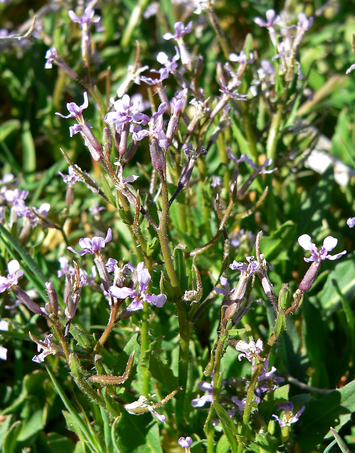 Chorispora tenella at Willow Spring of Willow Creek, Cold Creek area, Spring Mountains, southern Nevada (elev. about 1800 m)